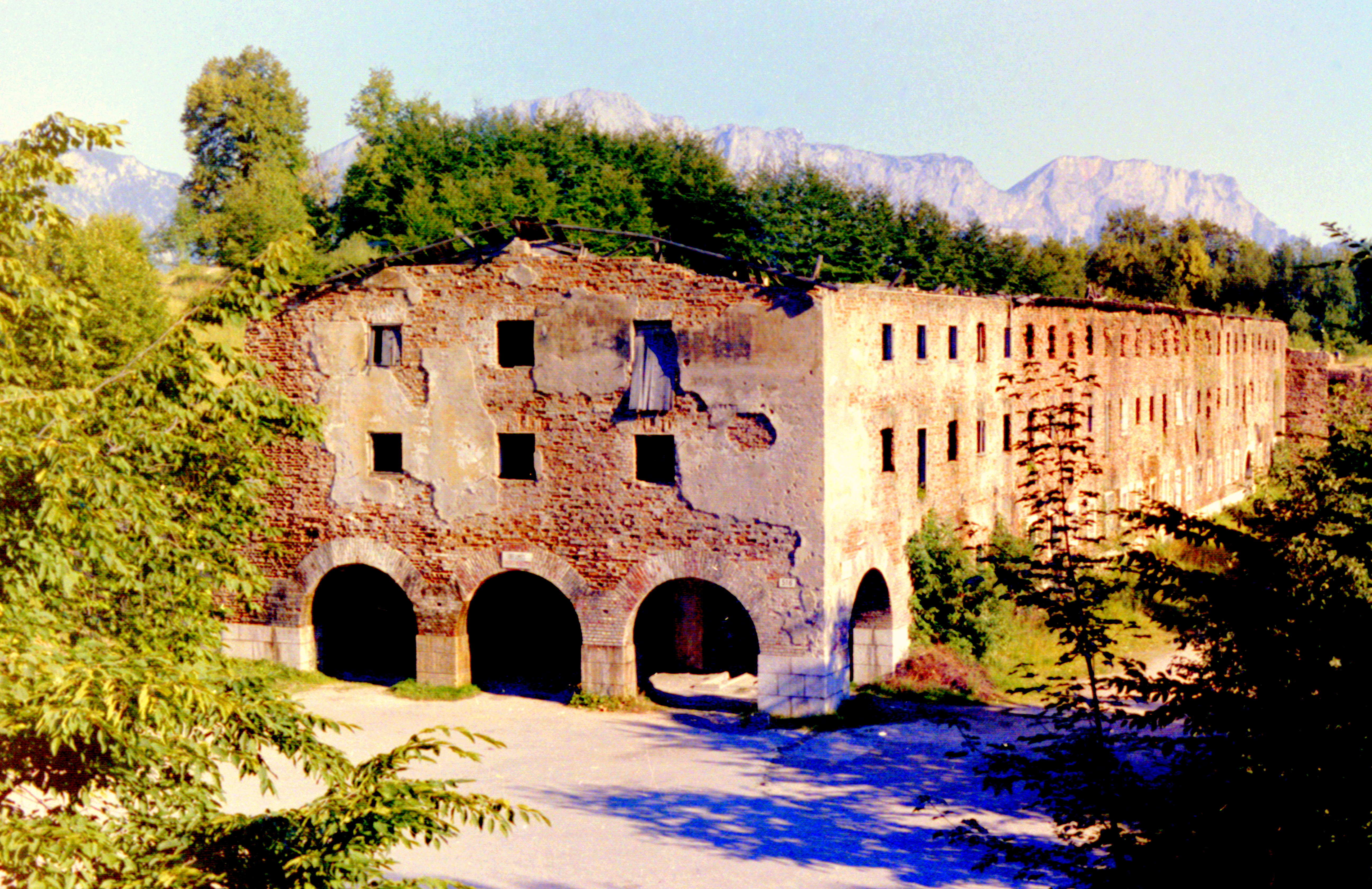 Platterhof garage? - 1966